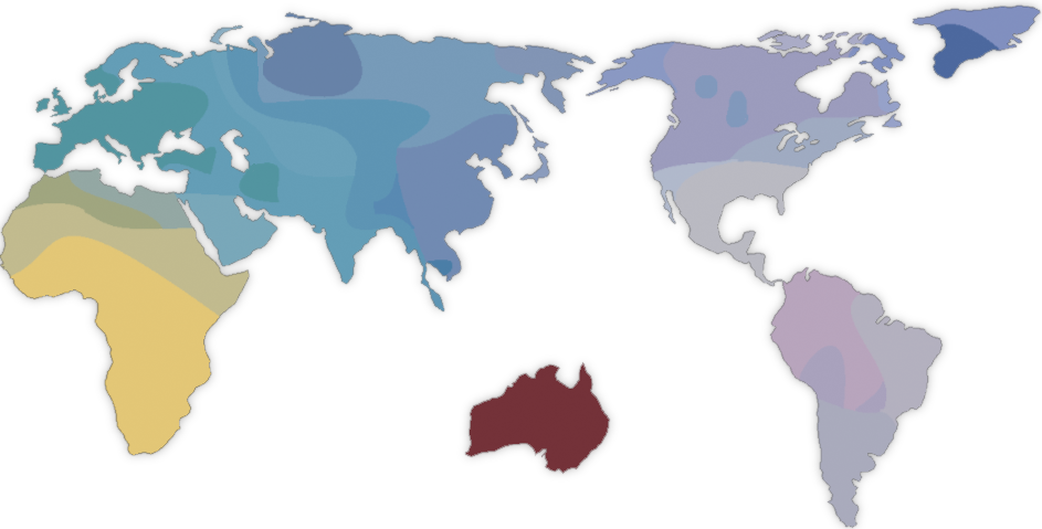 This is a reproduction of the map made by Luigi Luca Cavalli-Sforza in his book The History and Geography of Human Genes (1994). It displays the genetic relationship between human populations based on principal component analysis. Description from page 136 (unabridged edition): "The color map of the world shows very distinctly the differences that we know exist among the continents: Africans (yellow), Caucasoids (green), Mongoloids, including American Indians (purple), and Australian Aborigines (red). The map does not show well the strong Caucasoid component in northern Africa, but it does show the unity of the other Caucasoids from Europe, and in West, South, and much of Central Asia."